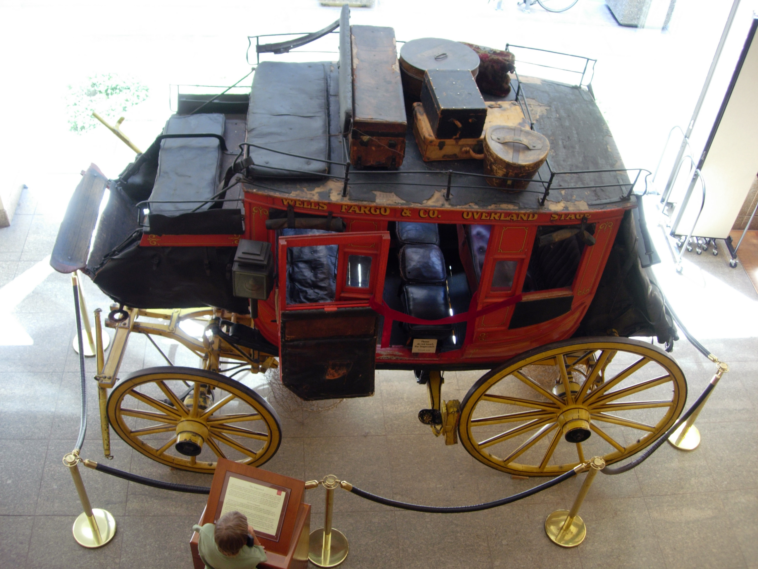 Wells Fargo stagecoachWells Fargo museum